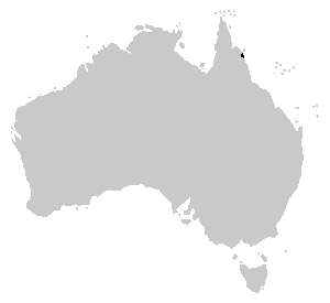 Distribution of the Armoured Frog, Litoria lorica.